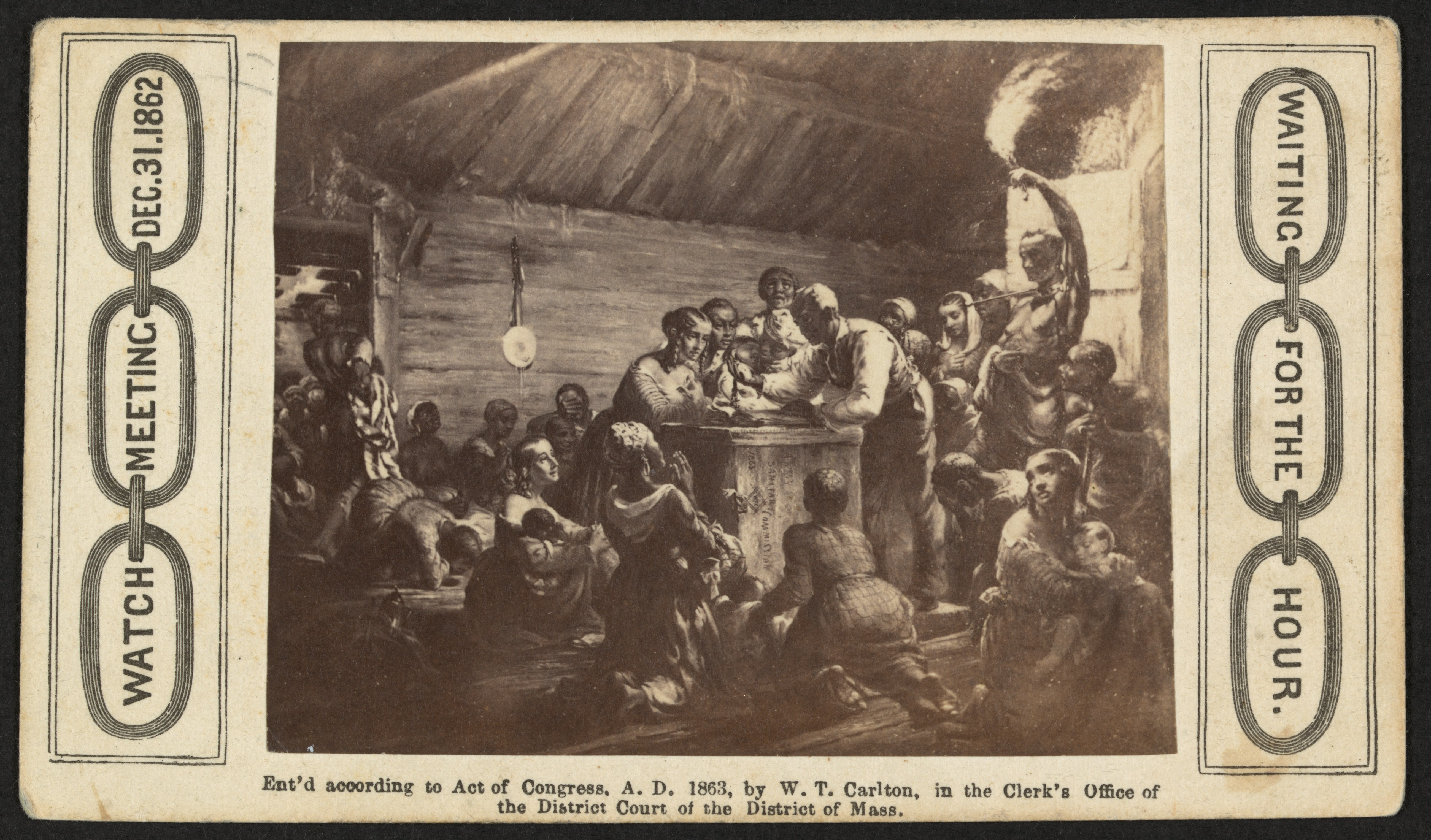 Title: Watch meeting, Dec. 31, 1862--Waiting for the hour / Heard & Moseley, Cartes de Visite, 10 Tremont Row, Boston. Abstract/medium: 1 photographic print on carte de visite mount : albumen.